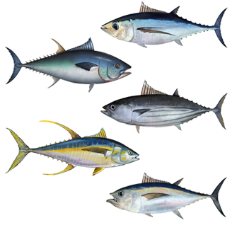 Assorted tuna species, family Scombridae, tribe Thunnini. From the top: Albacore tuna, Thunnus alalunga Atlantic bluefin tuna, Thunnus thynnus Skipjack tuna, Katsuwonus pelamis Yellowfin tuna, Thunnus albacares Bigeye tuna Thunnus obesus